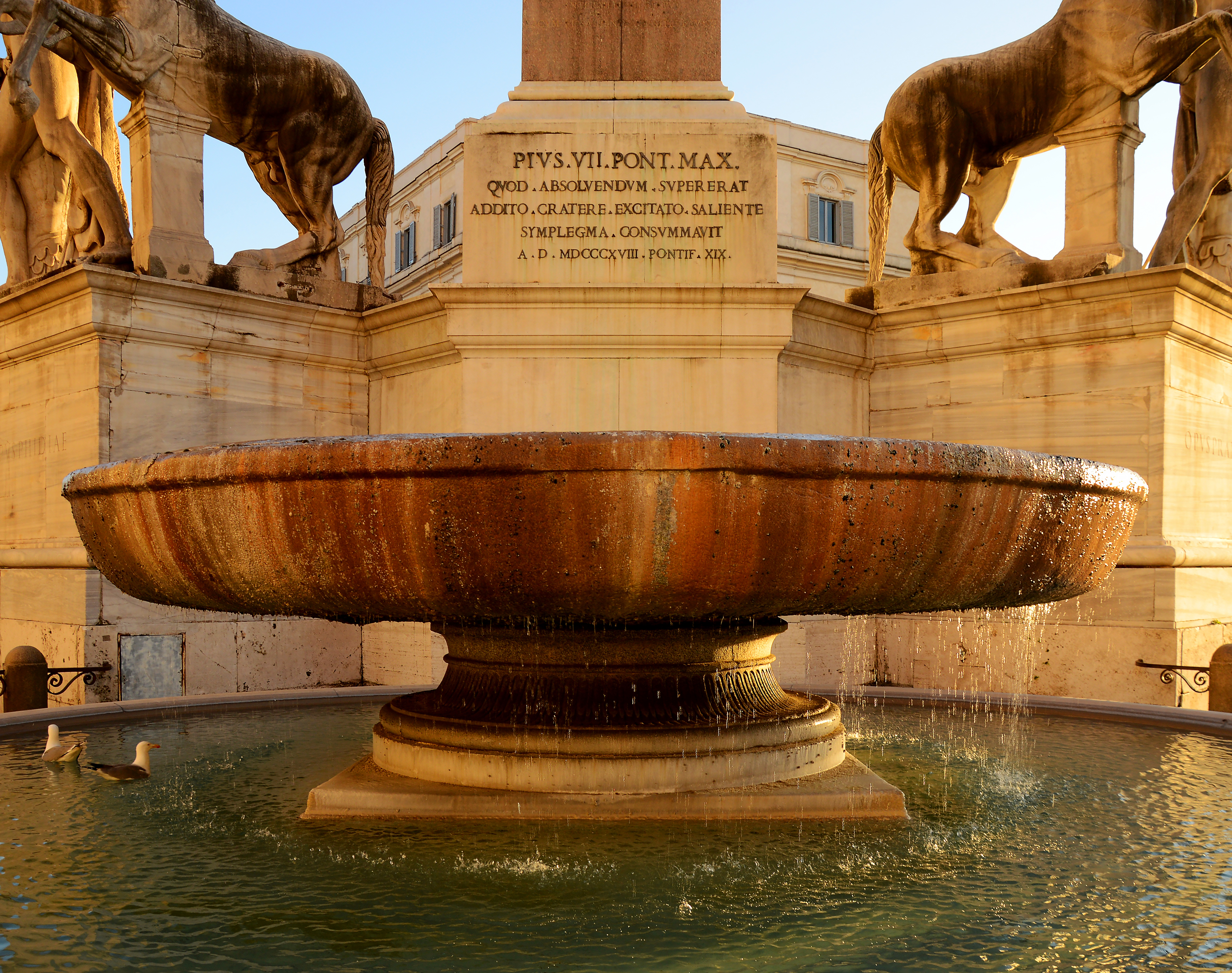 Fontana del Quirinale (Rome)